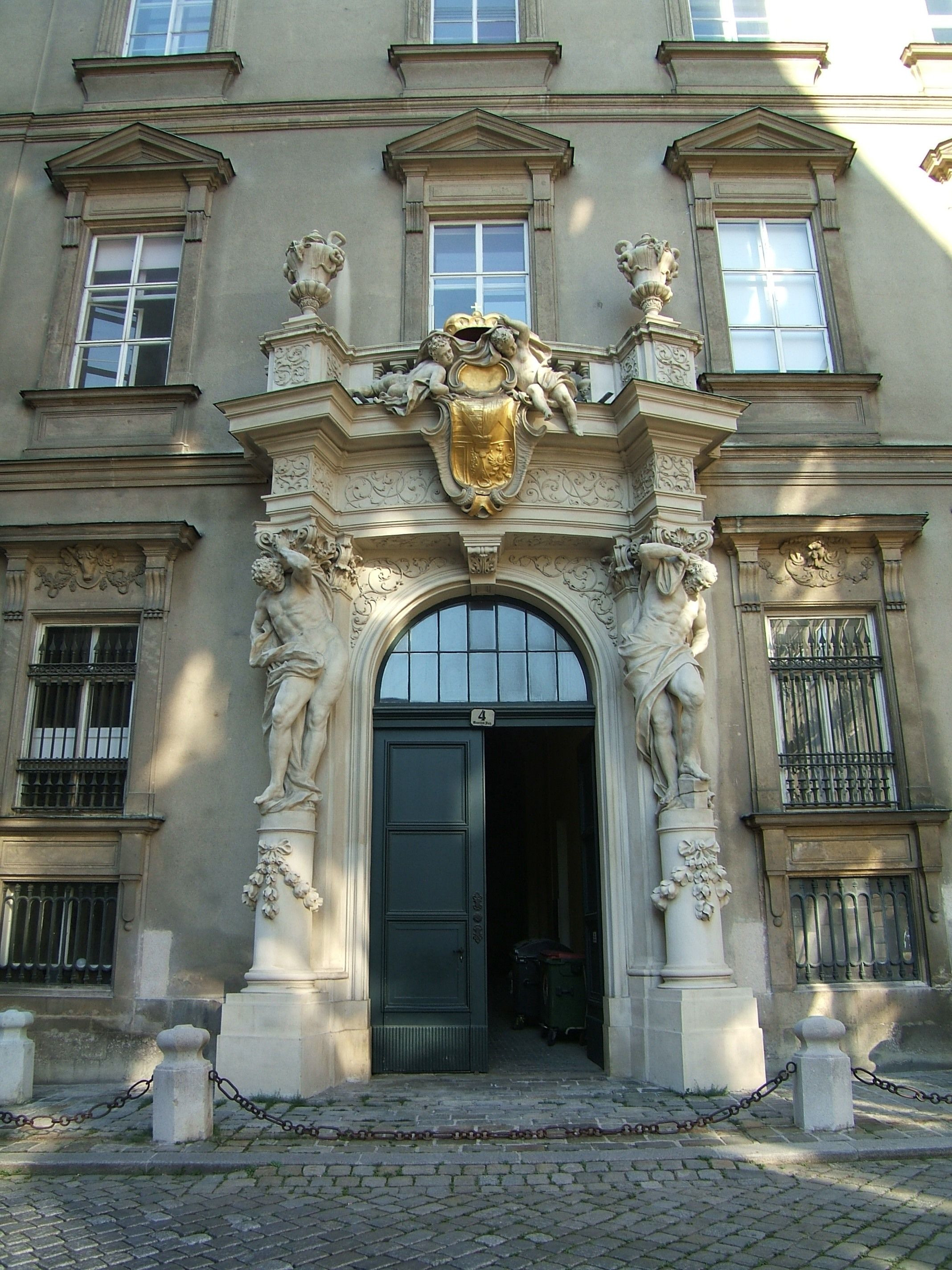 Palais Liechtenstein in Vienna 1st district (Bankgasse-Minoritenplatz), view from Minoritenplatz